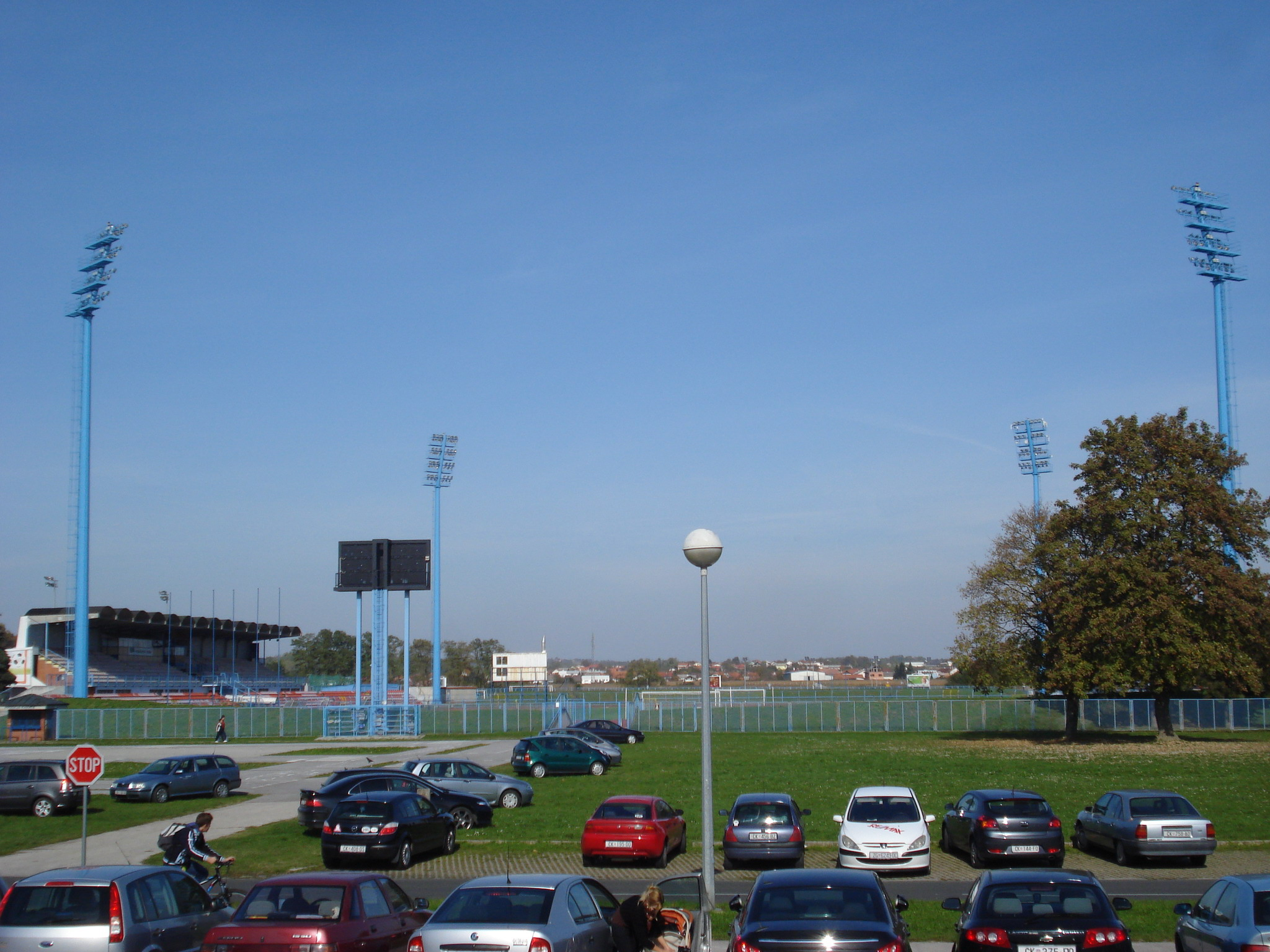 SRC Mladost Stadium in Čakovec, Medjimurje County, Croatia - reflectors and grandstandHrvatski: Stadion SRC Mladost u Čakovcu, Međimurska županija, Hrvatska - reflektori i tribina